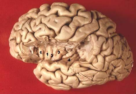 Human brain view on transverse temporal and insular gyri Inferior Portion of Lateral Frontal & Parietal Lobes Resected The two Transverse Temporal Gyri make up the Primary Auditory Cortex where auditory sensations (sounds) project into conscious awareness. Gyri breves insulae Sulcus centralis insulae Gyrus longus insulae Gyri temporales transversi (font: arial black, size:10)